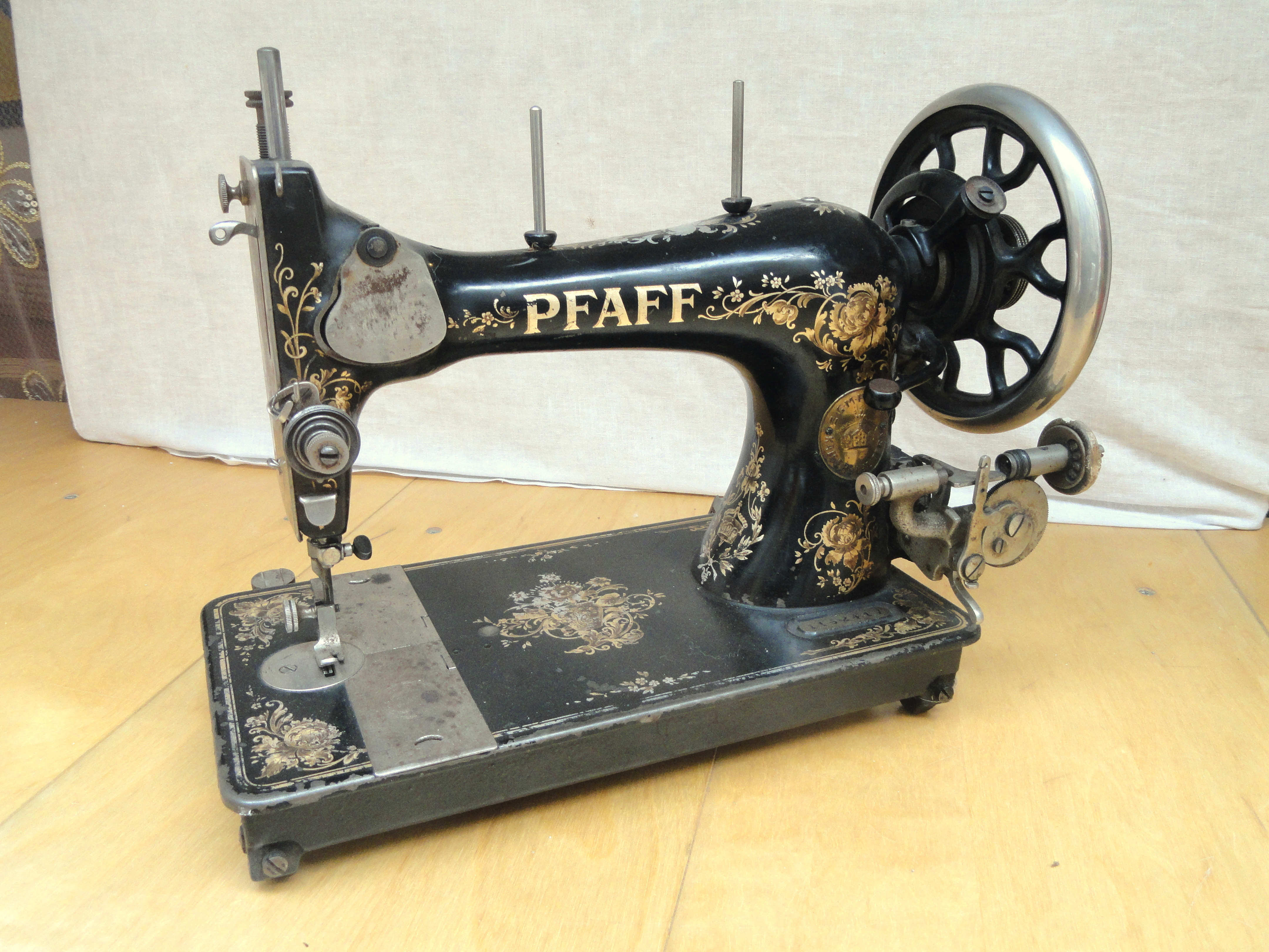 Pfaff sewing machine in Chalon sur Saône, Saône-et-Loire, Bourgogne, France.